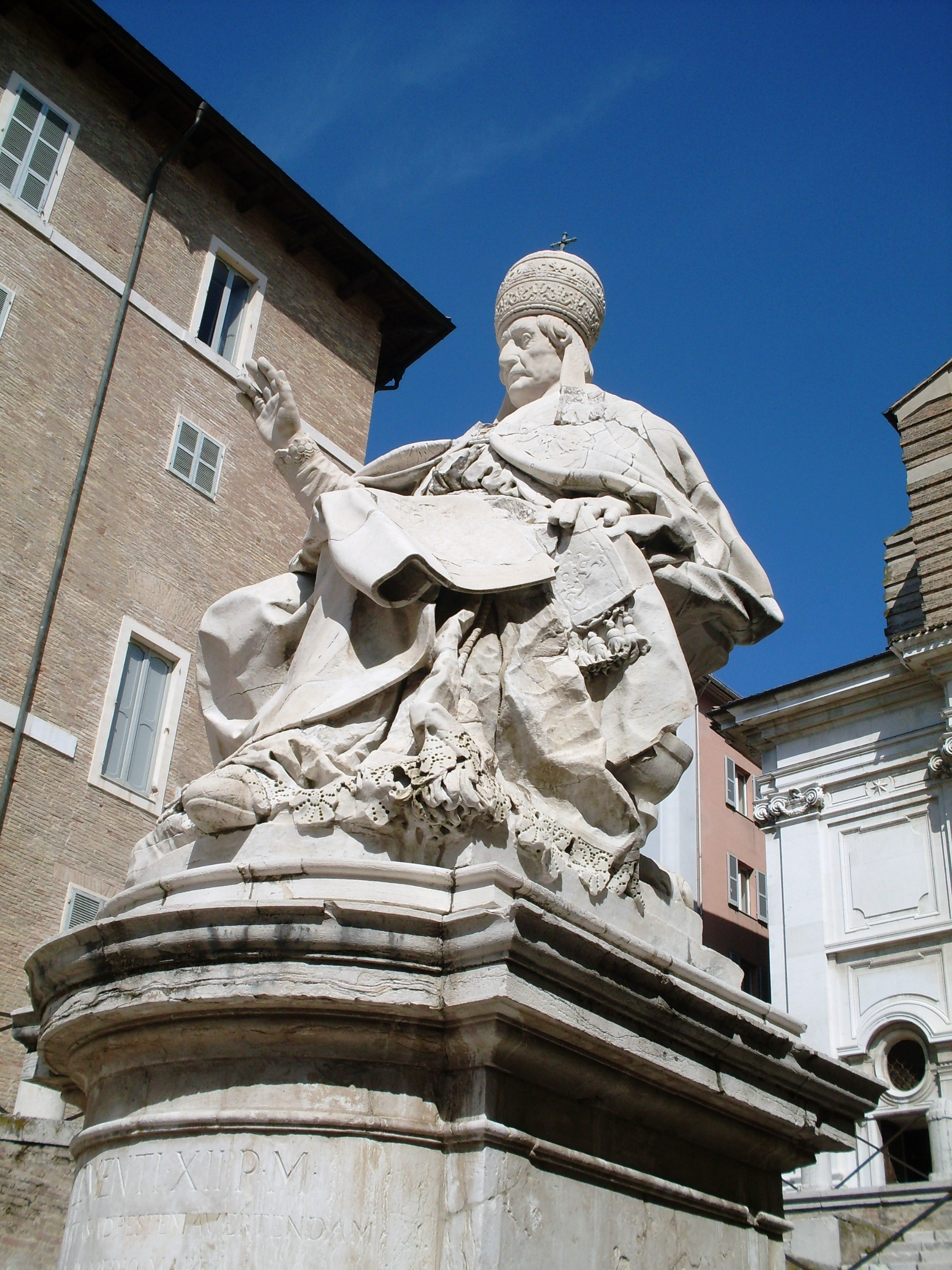 statua clemente XII